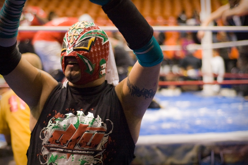 Picture of professional wrestler Crazy Boy